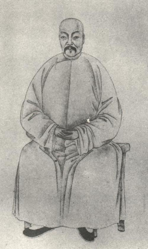 Lu Yitong, scholar of the Qing Dynasty.